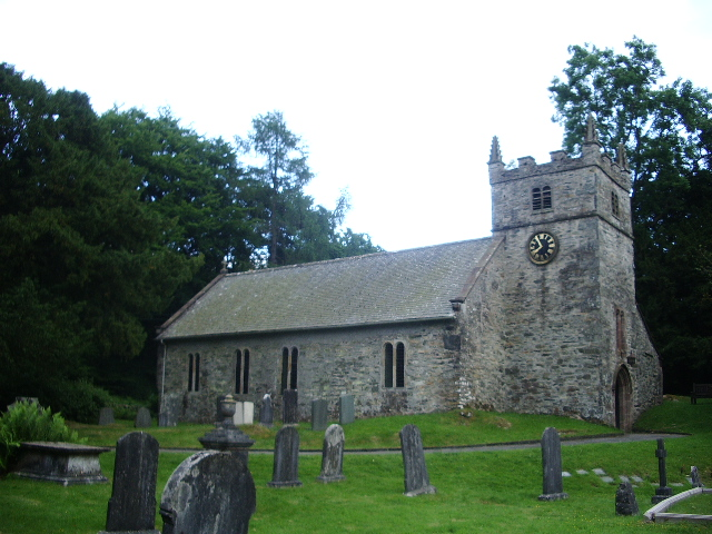 Photograph of St Mary's Church, Staveley